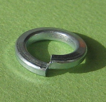 Spring lock washer